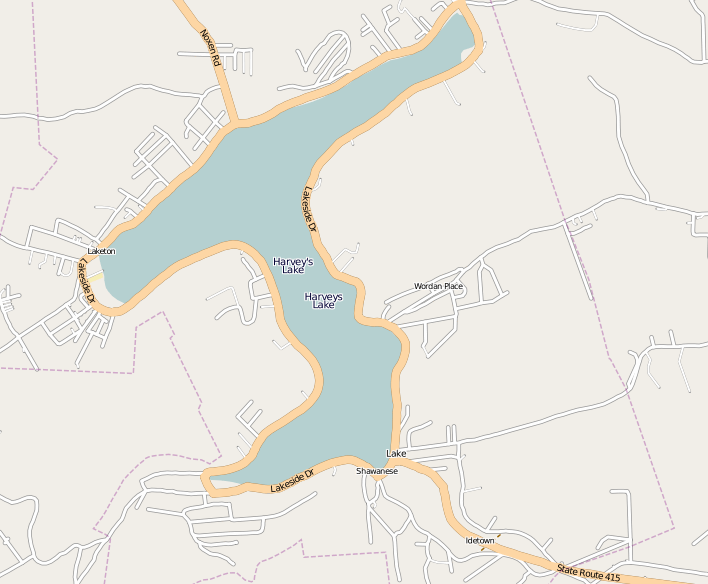 The area of Harveys Lake, Pennsylvania and Pennsylvania Route 415 as viewed from OpenStreetMap, an open-source mapping project.